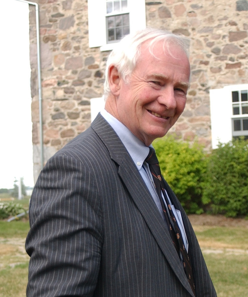 David Lloyd Johnston, then the president of University of Waterloo, in front of Brubacher House. Taken at UW's Canada Day celebrations.